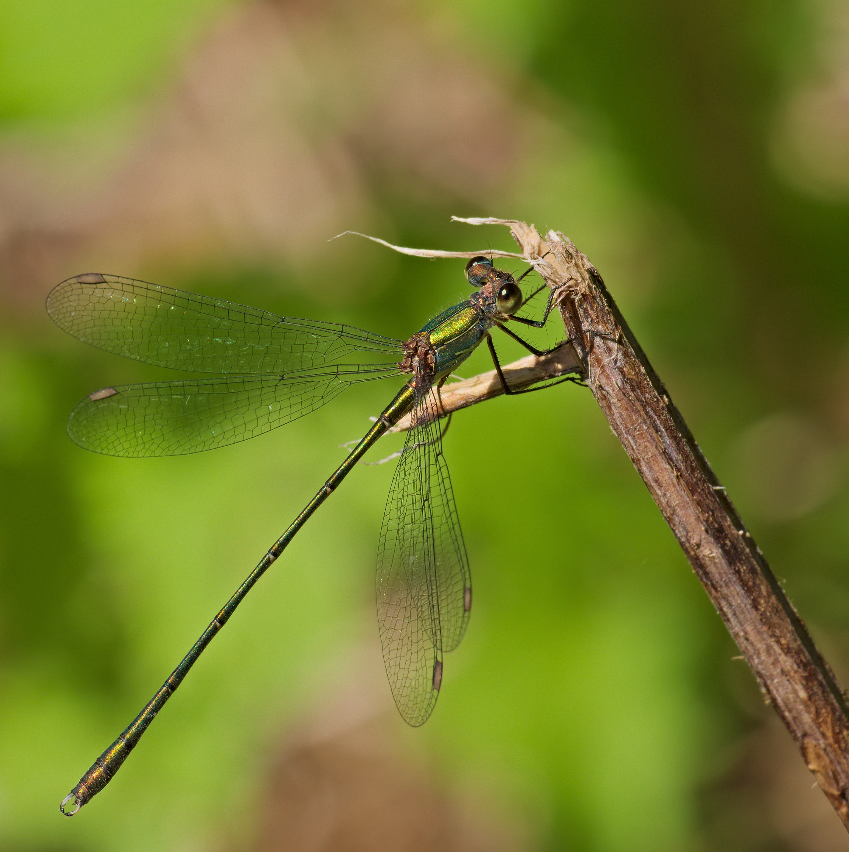 Western willow spreadwing - Lestes viridis, male. Taken in Mannheim, Kirschgartshäuser Schläge by the Bruchgraben, Baden-Württemberg, Germany.